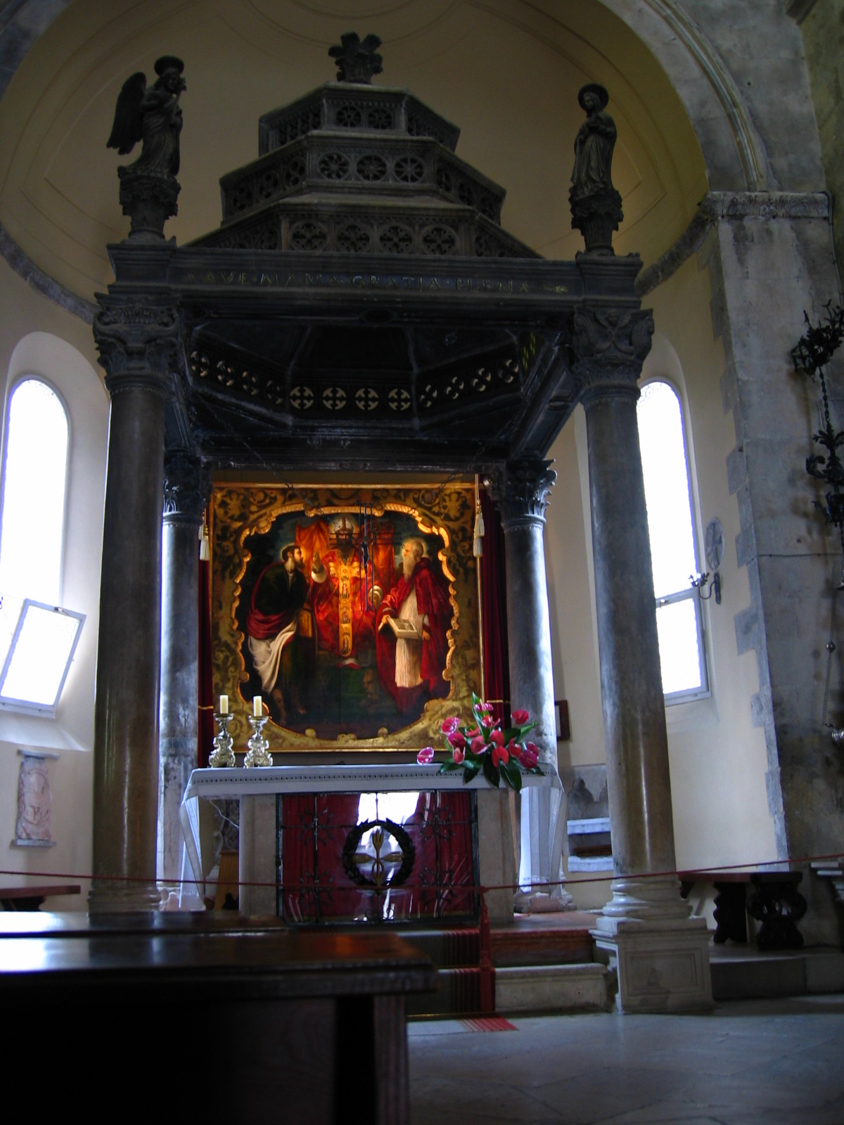 Painting of Jacopo Tintoretto in Korčula's Sveti Marko cathedral, Croatia (Saint Mark with Saints Bartholomew and Hieronymus)